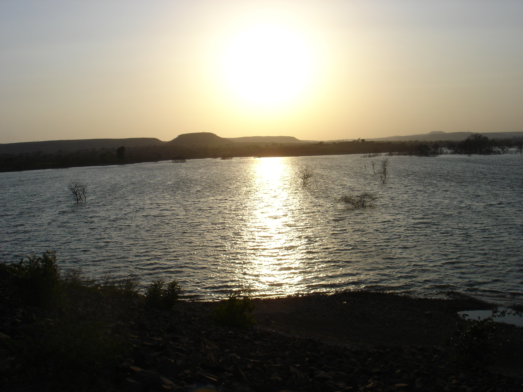 A view of Koyna river